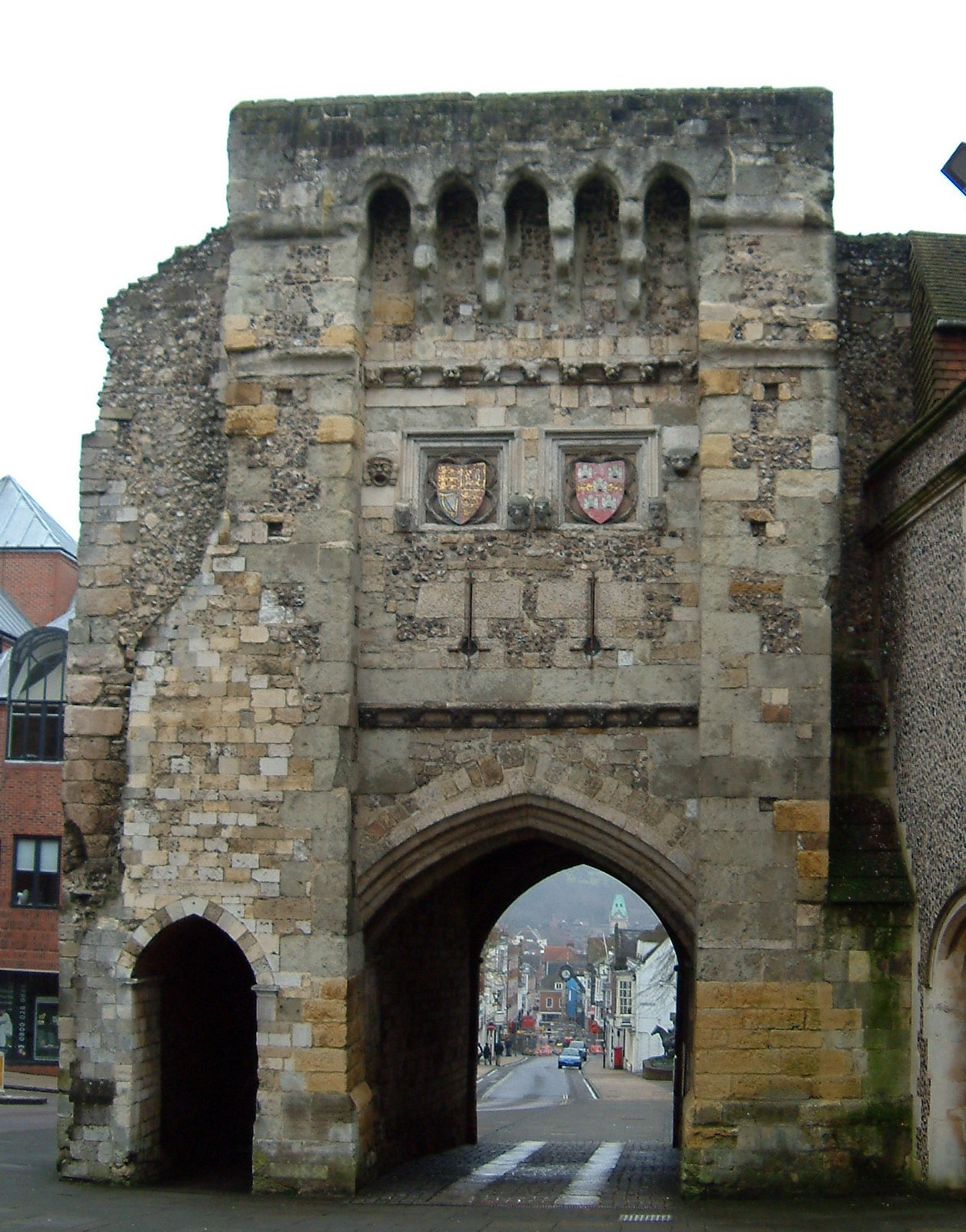 West Gate, Winchester, Hampshire